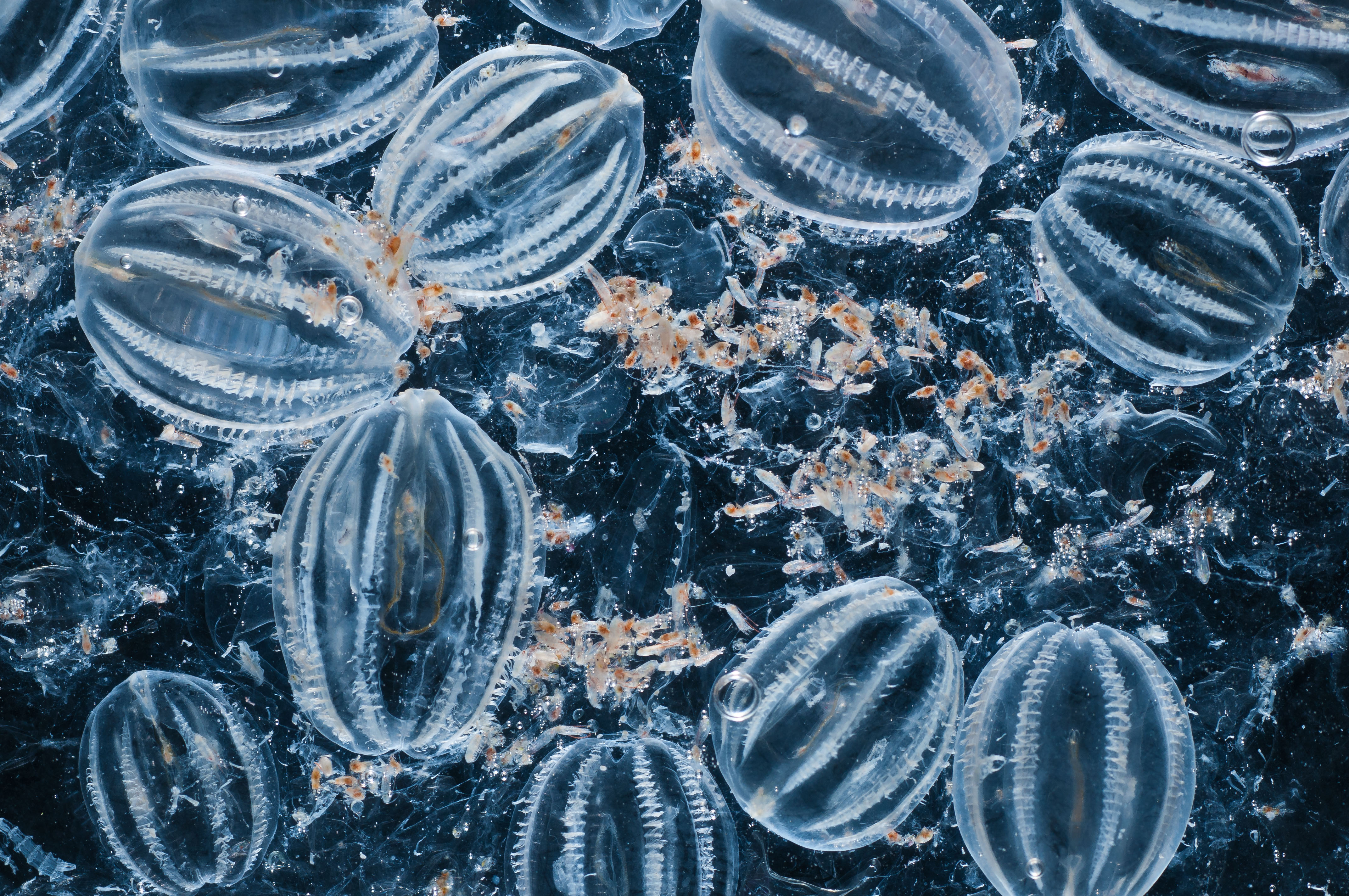 The smaller orange dots are zooplankton, they could be copepods, amphipods, or krill. All are crustaceans that would stay this small their entire life. The stripes on the jellies are ciliary combs, which they use to swim through the water. Photo by Eric Vance, U.S. EPA Learn more @